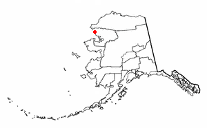 Adapted from Wikipedia's AK borough maps by Seth Ilys.